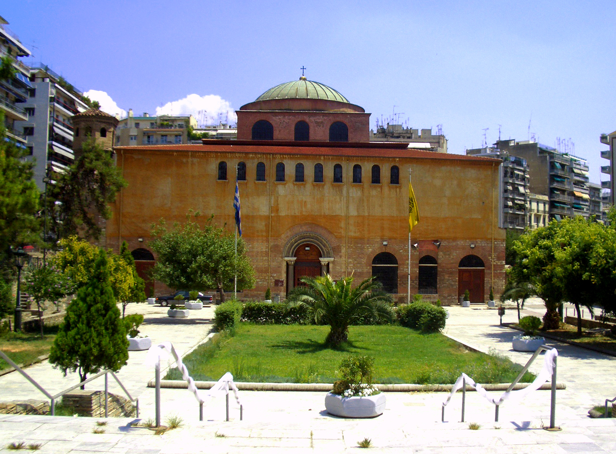 The Church of Holy Wisdom in Thessaloniki. Central side.